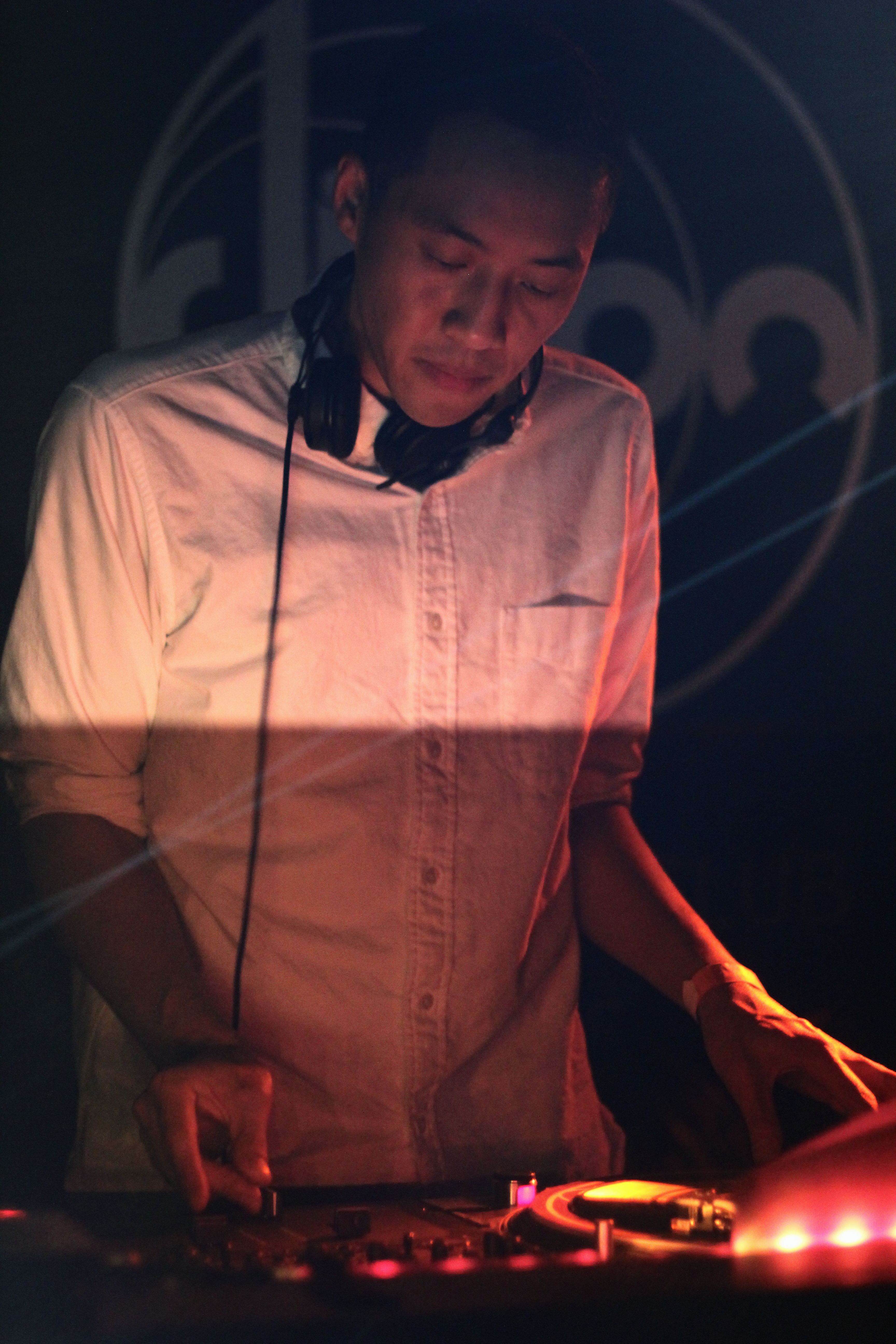 Eric Lau - So Miles Party, Djoon, Paris in 2014